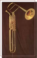 Cimbasso in F